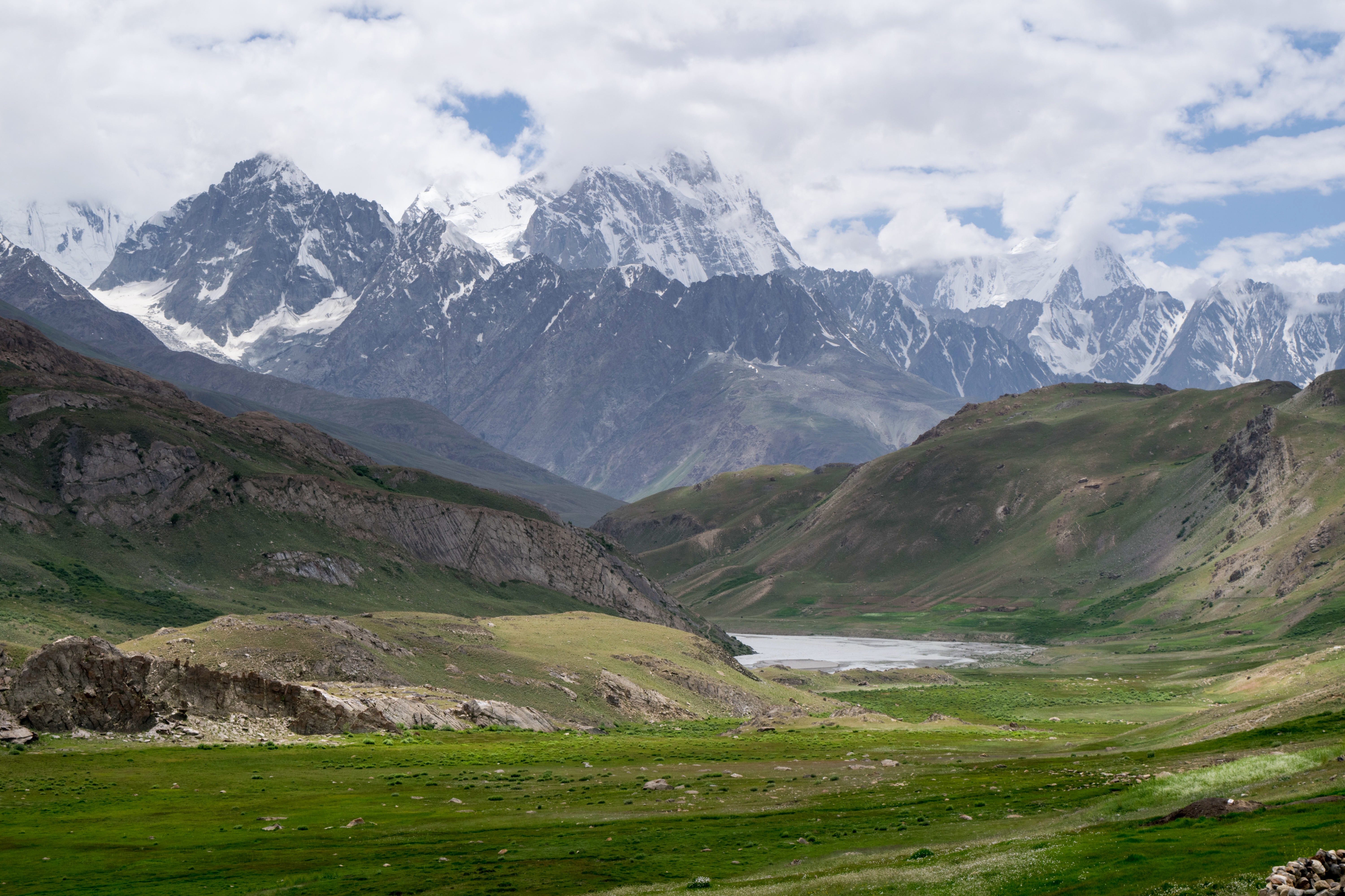 View from Gharel village between Ishkarwaz and Lashkargaz in Boroghil Valley, Pakistan on Karamber Lake trek.